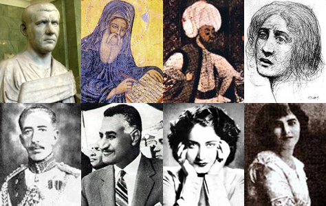 Notable Arabs for the infobox. From left to right: Philippus Arabus, John of Damascus, al-Kindi, al-Khansa, King Faisal I, Gamal Abdel Nasser, Asmahan, May Ziade, and EmirAbdelKader.